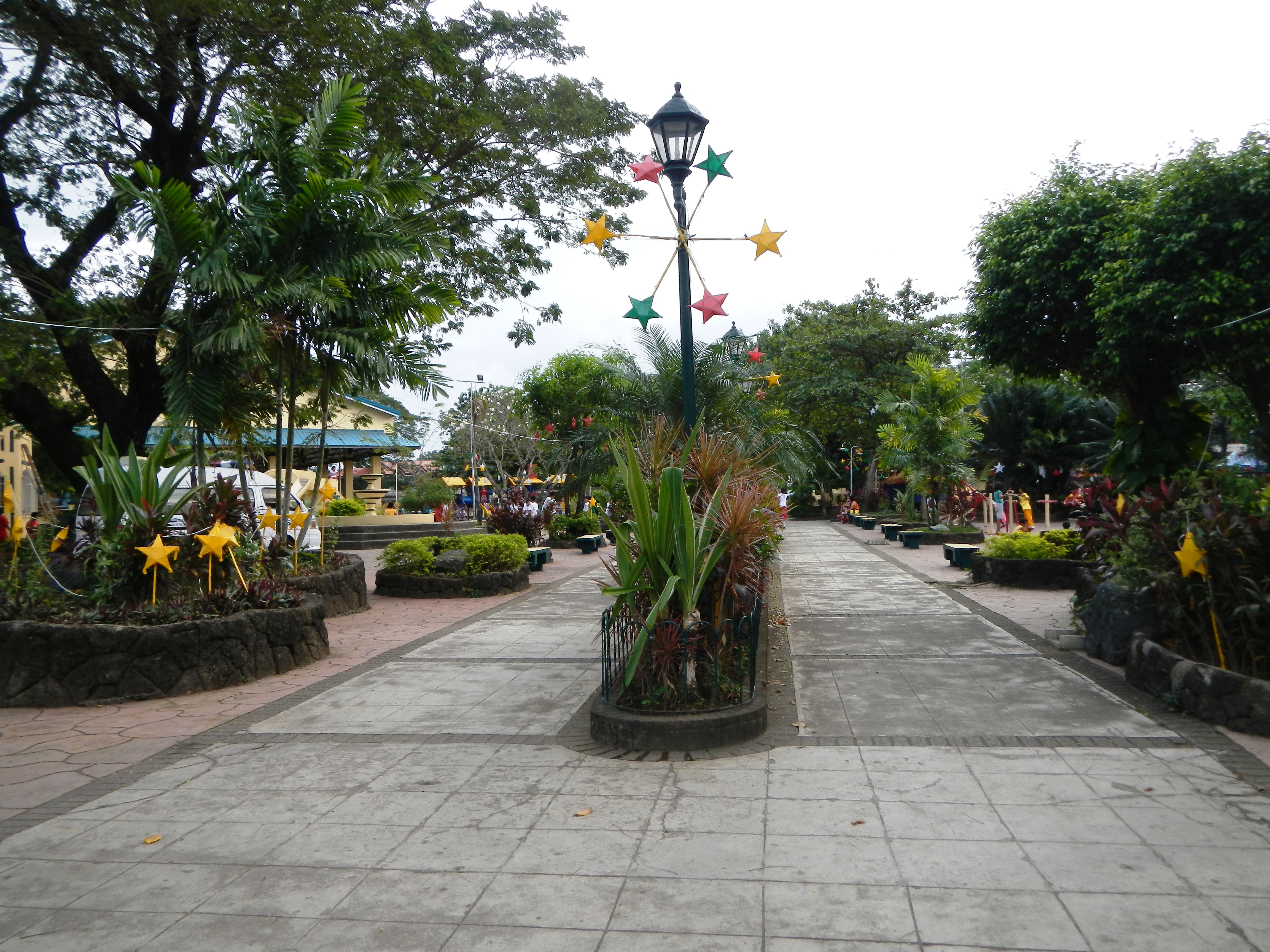 Upload Wizard photos of - Nasugbu, Batangas[1] - Town Proper, Centro, downtown, Bahay Pamahalaan ng Nasugbu - Nasugbu Municipal Hall Complex, in front of the Plaza de Roxas Covered Court and Basketball Court - the Nasugbu Glorieta of 1937 and Nasugbu Auditorium Rizal Monument near the Nasugbu Fire Station, the Marble Marker on the Donation of the Church land by the Roxas Family June 9, 1933 in the - Archdiocesan Chancery - Parish Church of Saint Francis Xavier of Nasugbu solemnly dedicated on December 7, 2006, the 500th birthday of St. Francis Xavier[2] [3] Roman Catholic Archdiocese of Lipa Vicariate I – St. Francis Xavier.[4]